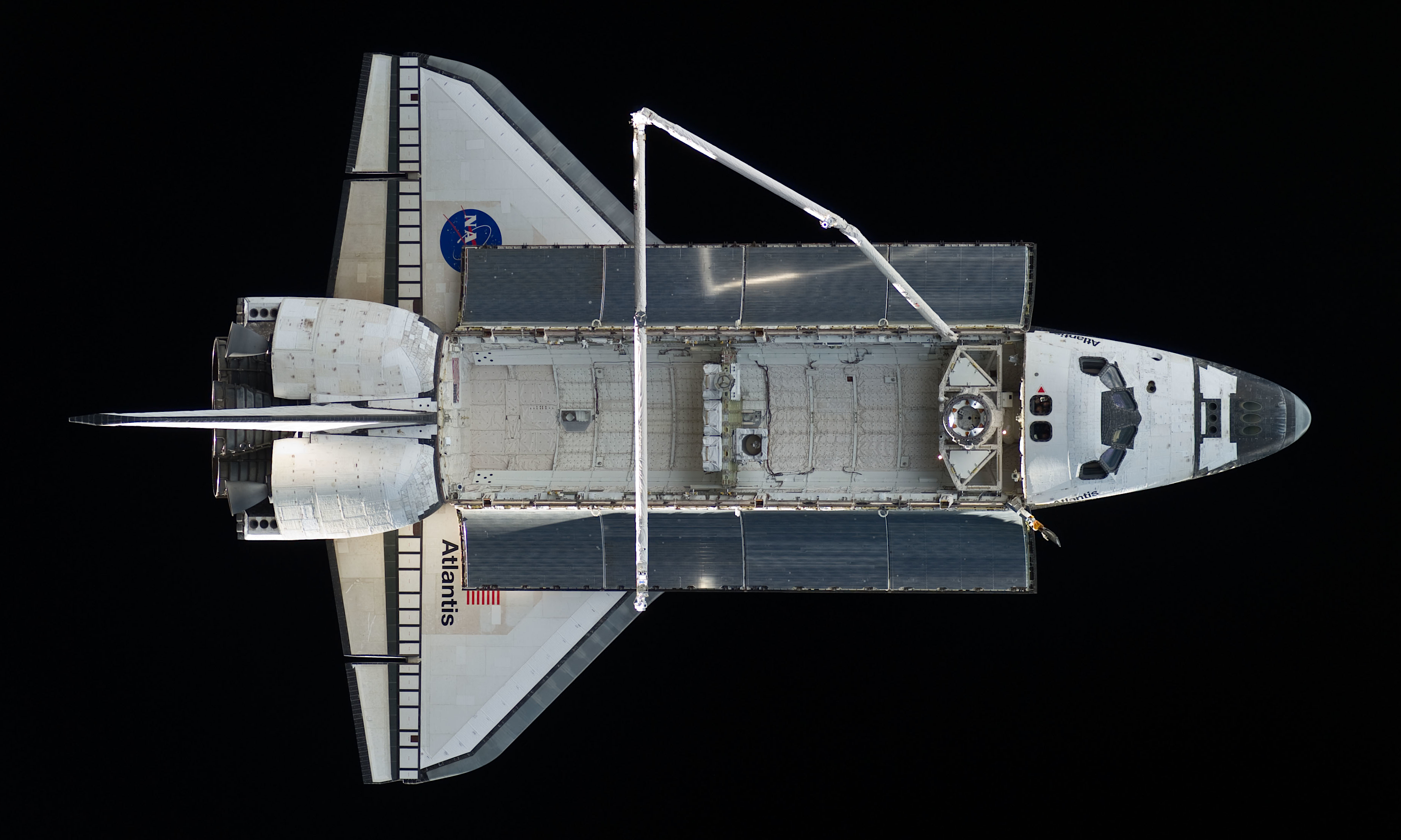 Space shuttle Atlantis is featured in this image photographed by an Expedition 23 crew member on the International Space Station soon after the shuttle and station began their post-undocking relative separation. Undocking of the two spacecraft occurred at 10:22 a.m. (CDT) on May 23, 2010, ending a seven-day stay that saw the addition of a new station module, replacement of batteries and resupply of the orbiting outpost.